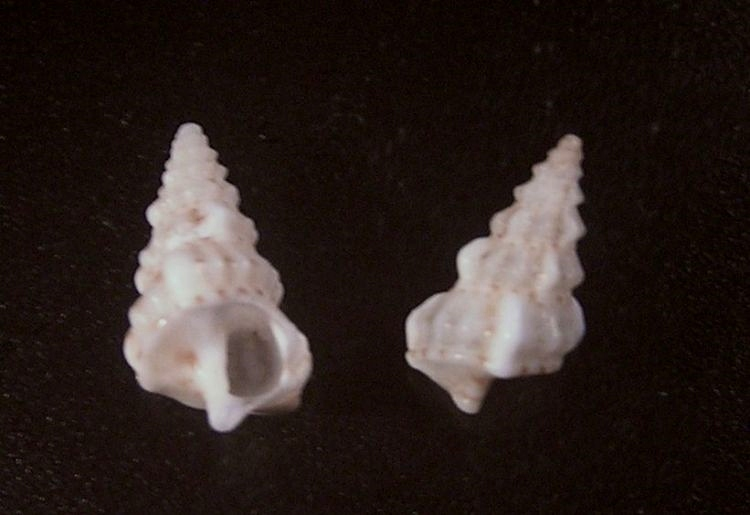 Plesiotrochus monachus (Crosse & Fischer, 1864), a mollusc in the family Plesiotrochidae